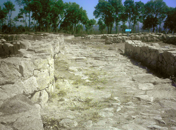 Cardium street of Cividade de Terroso taken June 1, 2006 by user:PedroPVZ